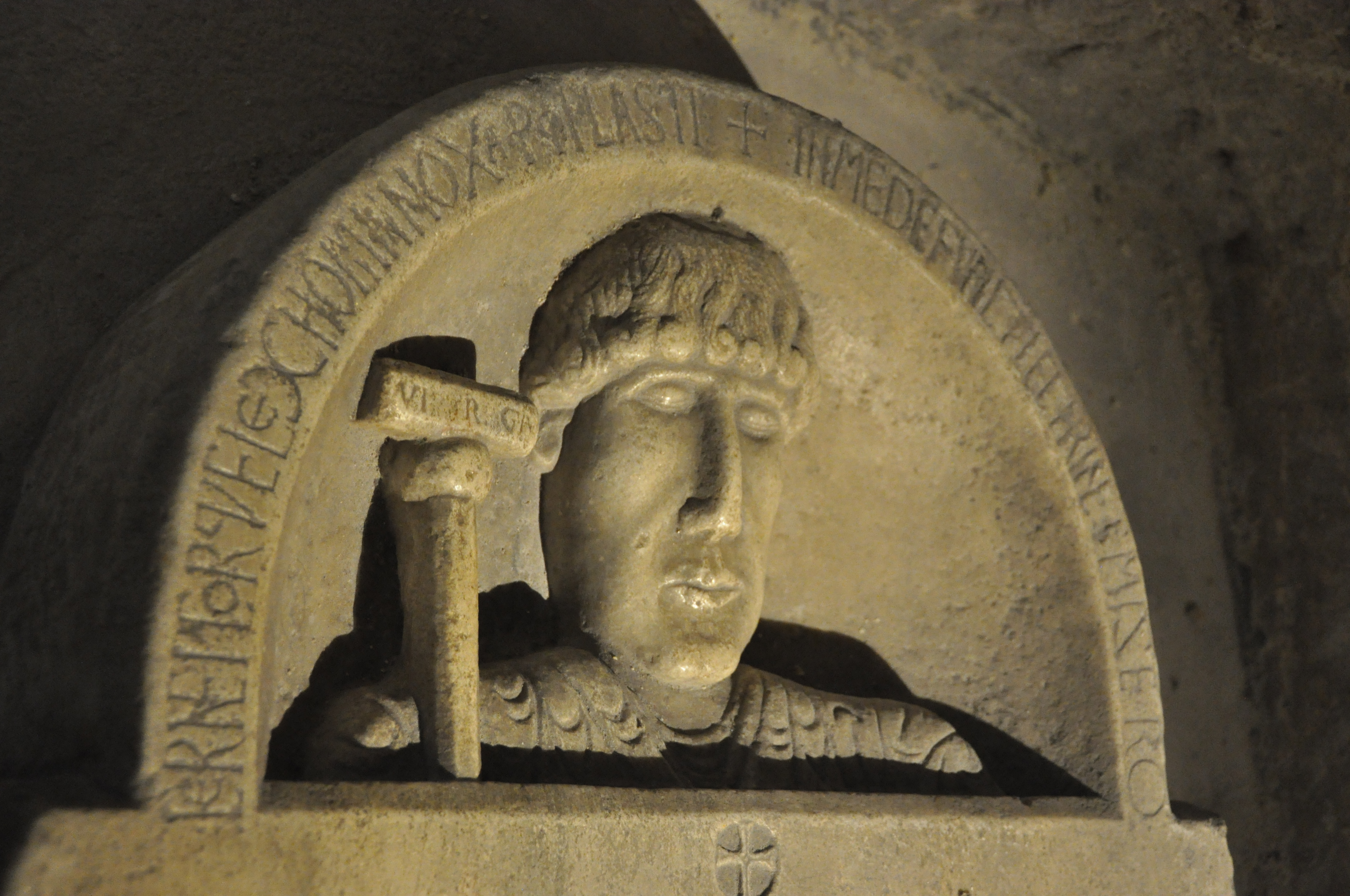 Tombstone of abbot Isarnus (11th C). Crypt of the Abbey of St Victor, Marseille